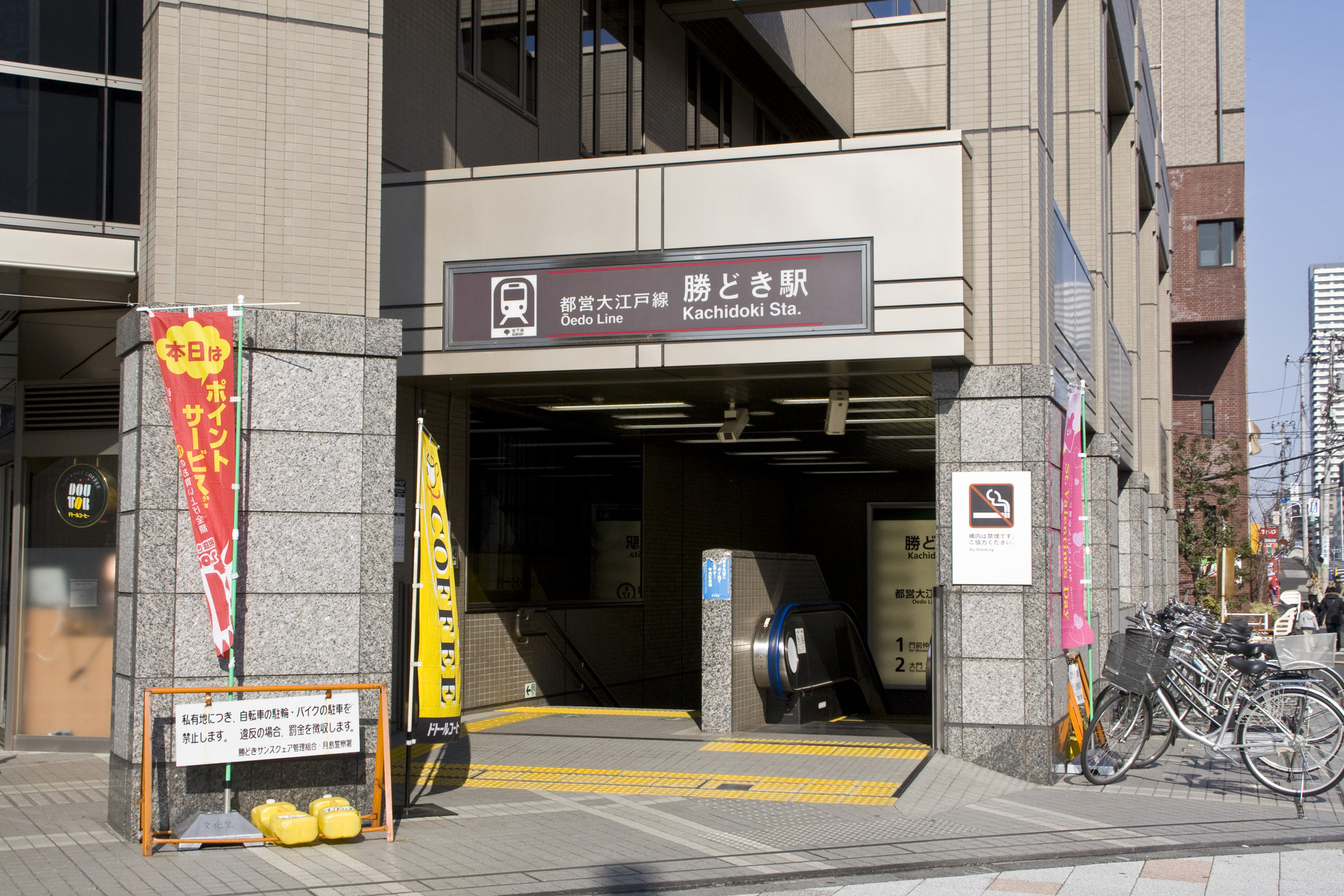 Entrance A1 to Kachidoki Station on the Toei Ōedo Line in Tokyo, Japan